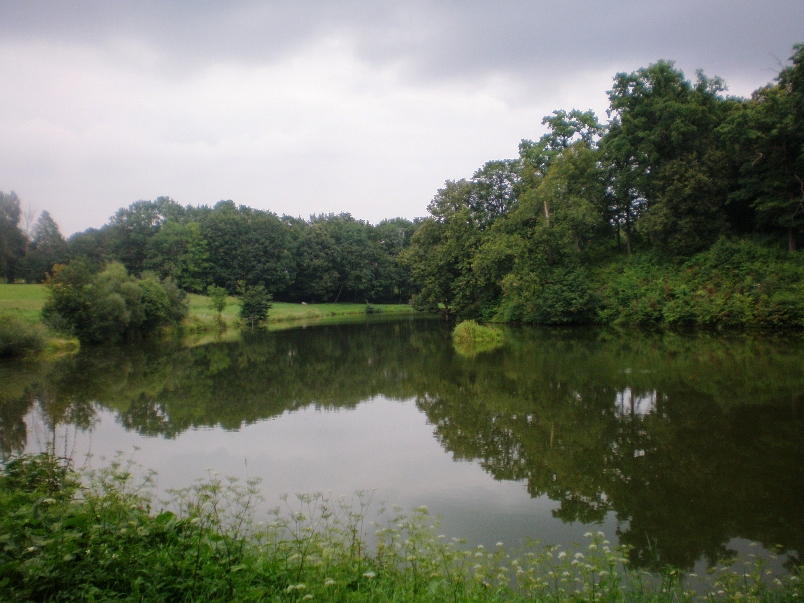 Lake by the Panemunė castle in Vitėnai or Pilis I